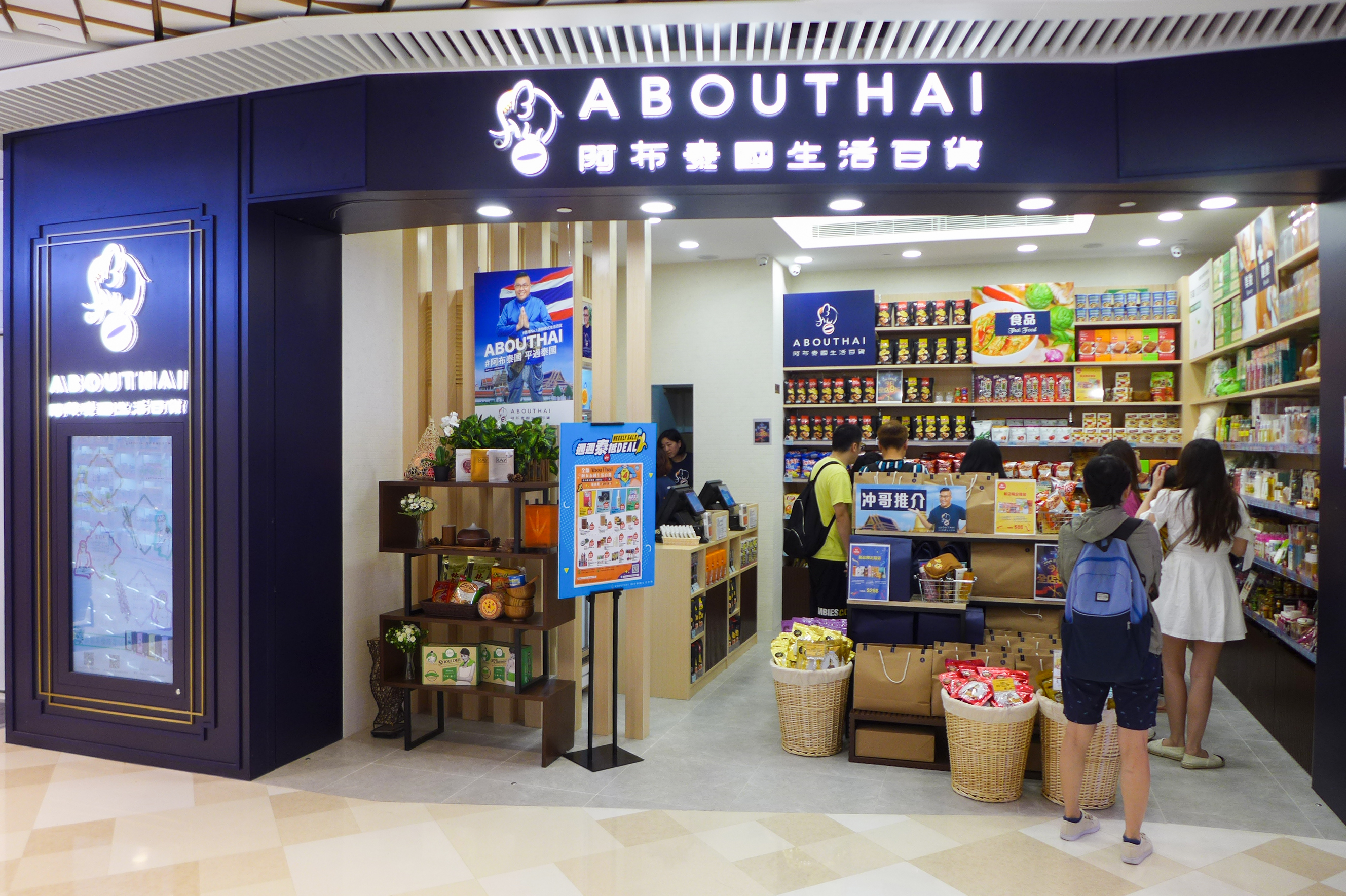 Abouthai in Vwalk